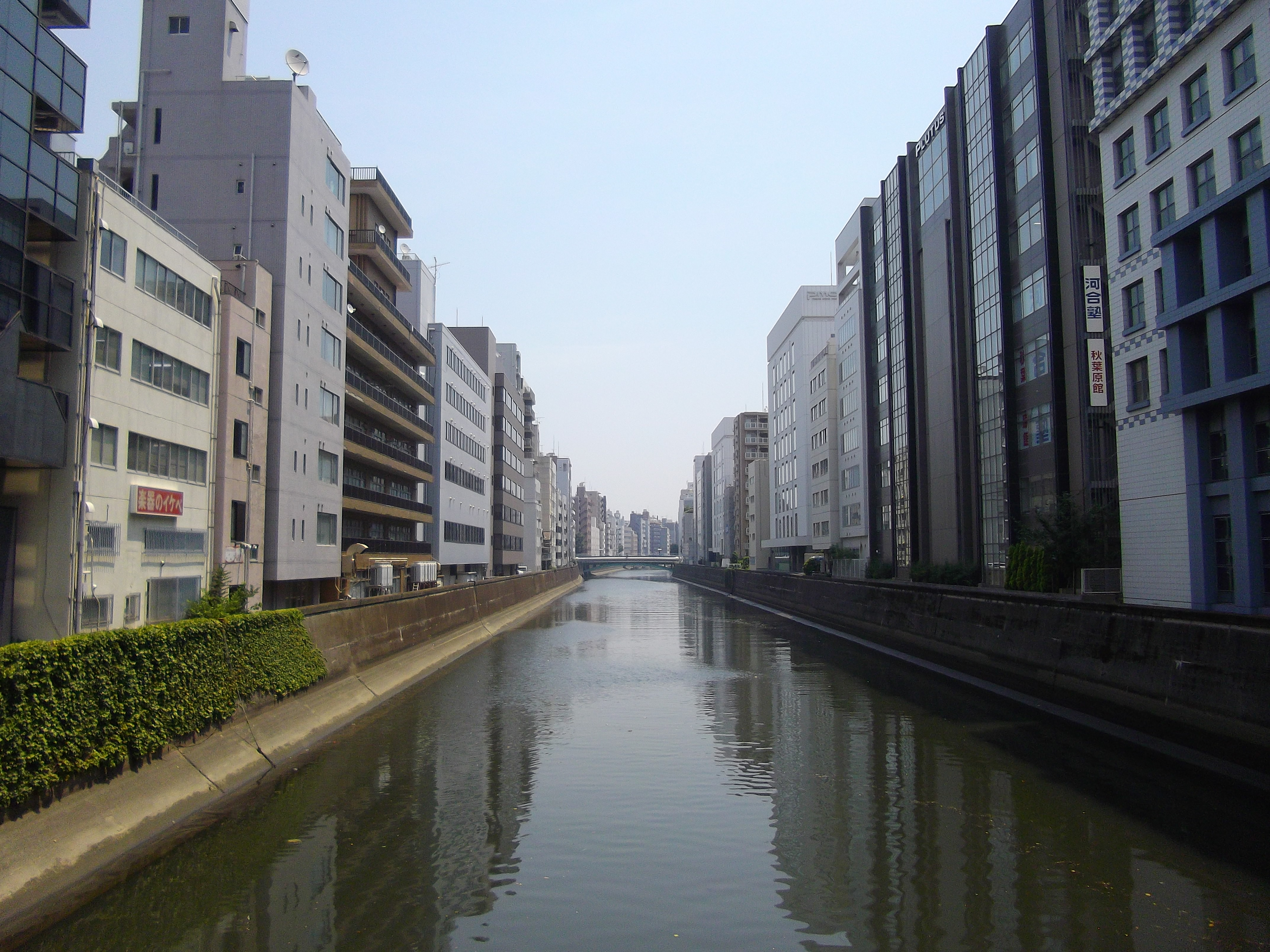 This is the view downstream of Kanda River from Izumi Bridge in Chiyoda-ku, Tokyo.